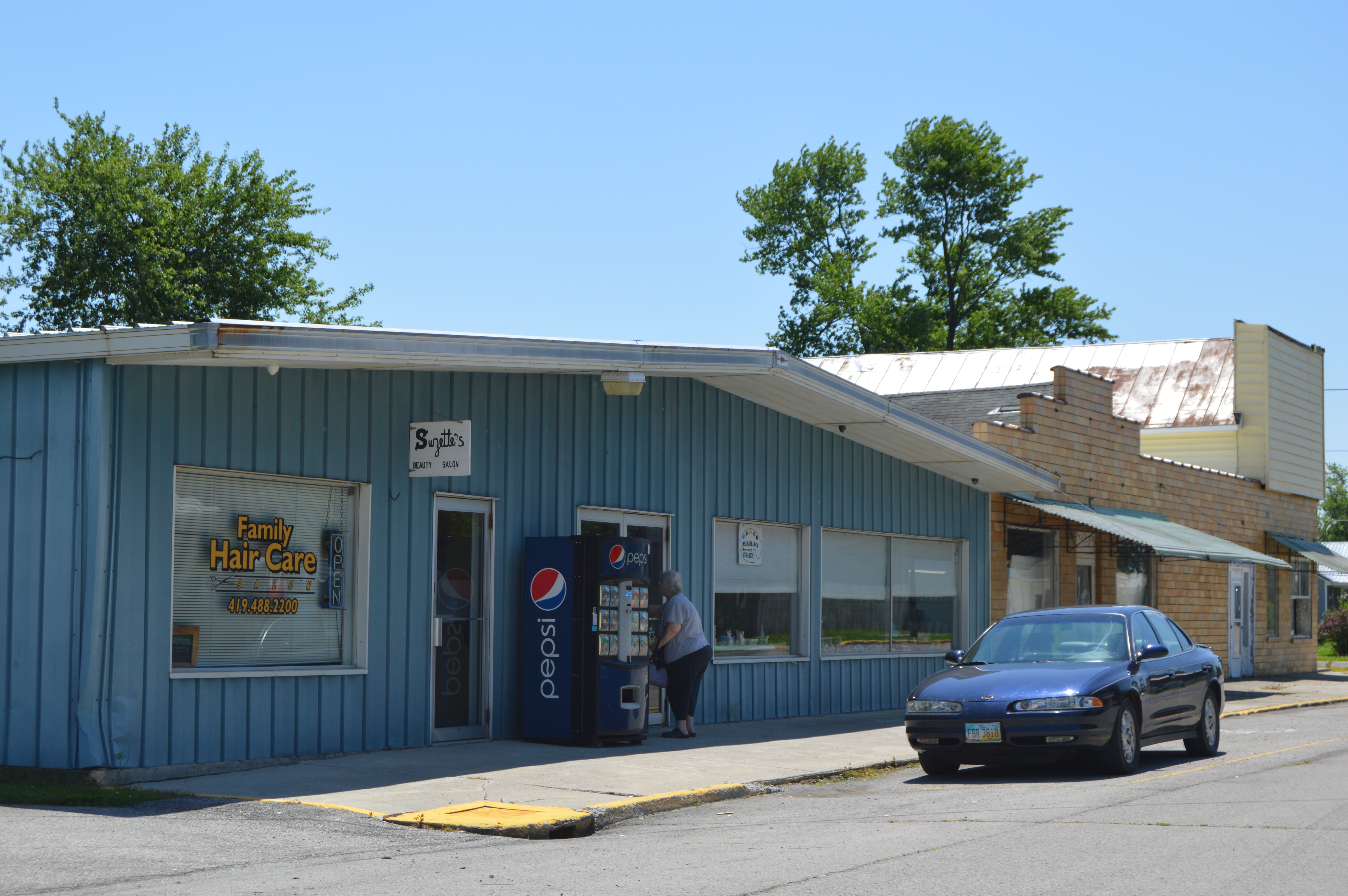 Buildings on the eastern side of Mahoning Street north of the Fourth Street intersection in Cloverdale, Ohio, United States.